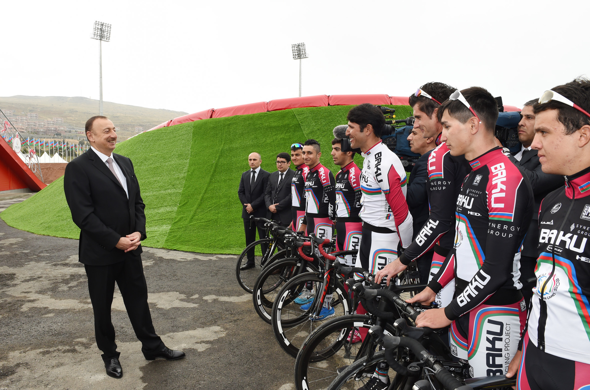 Opening of the Baku Bike Park